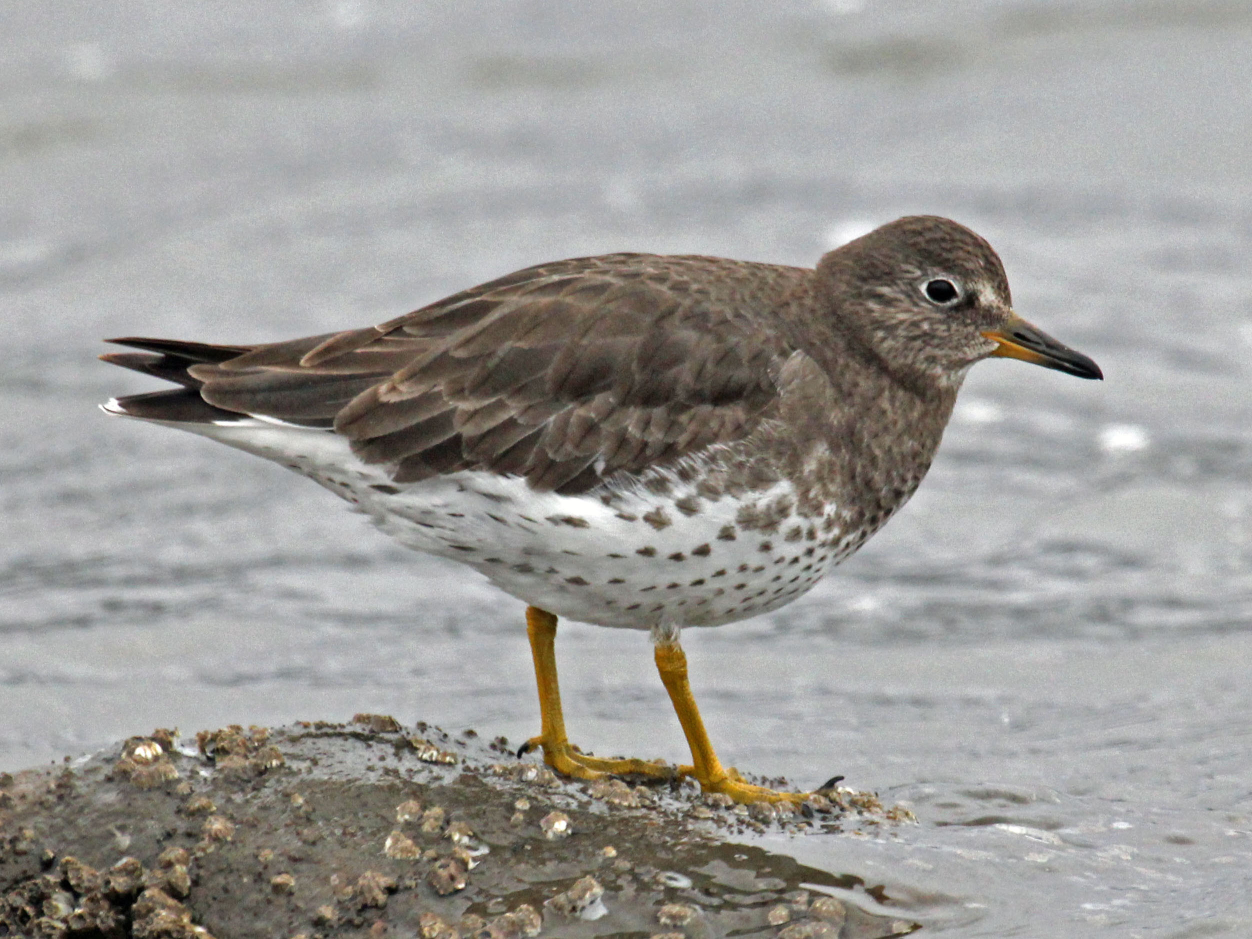 Surfbird (Aphriza virgata) - Half Moon Bay, California.